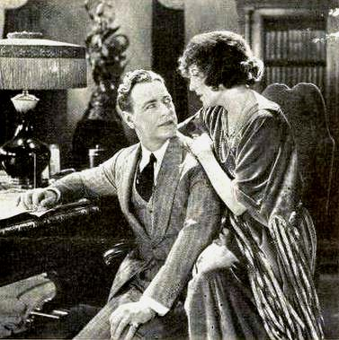 Still from the American film I Am Guilty (1921) with Louise Glaum and Mahlon Hamilton, on page 1 of the March 8, 1921 Film Daily.